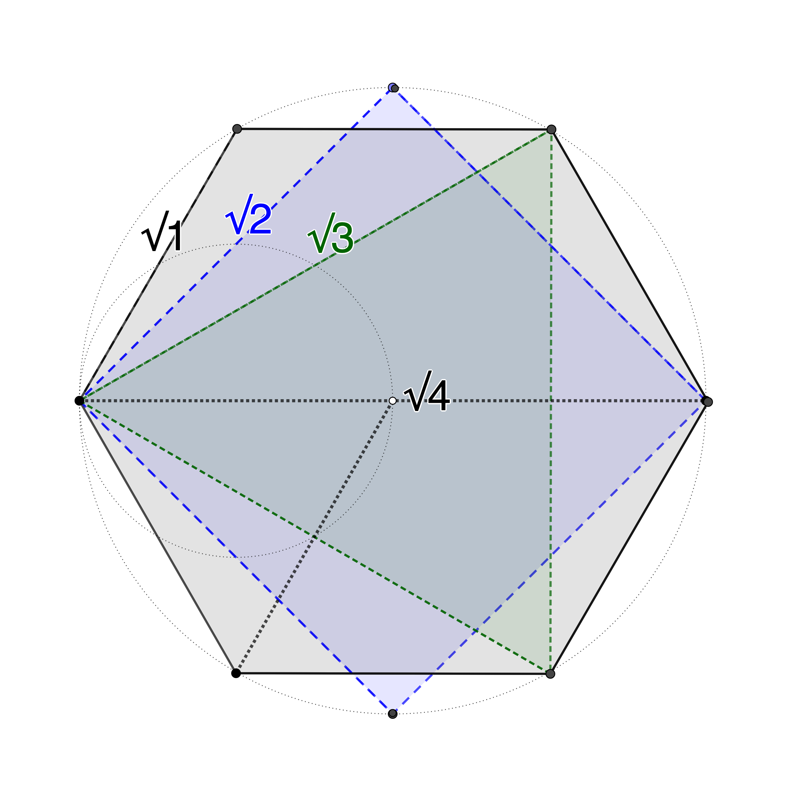 The 24 vertices of the 24-cell are distributed at four different chord lengths from each other: √1, √2, √3, or √4. The √1 edges occur in 16 hexagonal great circles. The √2 chords occur in 18 square great circles. The √3 chords occur in 32 triangular great circles. The √4 chords occur as 12 vertex-to-vertex diameters, the 24 radii around the 25th central vertex.